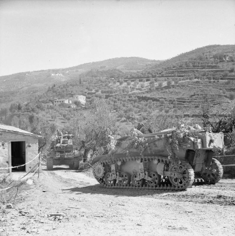 The British Army in Italy 1944 A Sherman and Stuart reconnaissance tank of the 2nd Lothian and Border Horse, 6th Armoured Division, near Rufina, 12 September 1944.